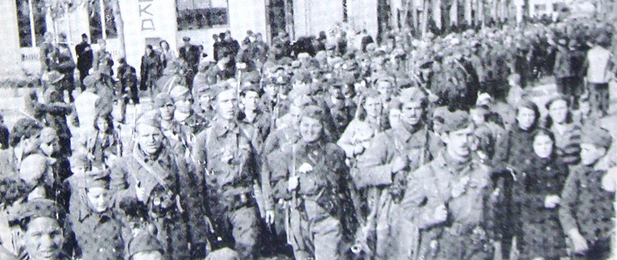 Celebration welcoming the heads of NOV and POM, at liberation of Kumanovo. (11 November 1944) This media file is produced by Wikipedian in Residence in Category:Wikipedian in Residence at DARM in 2016.